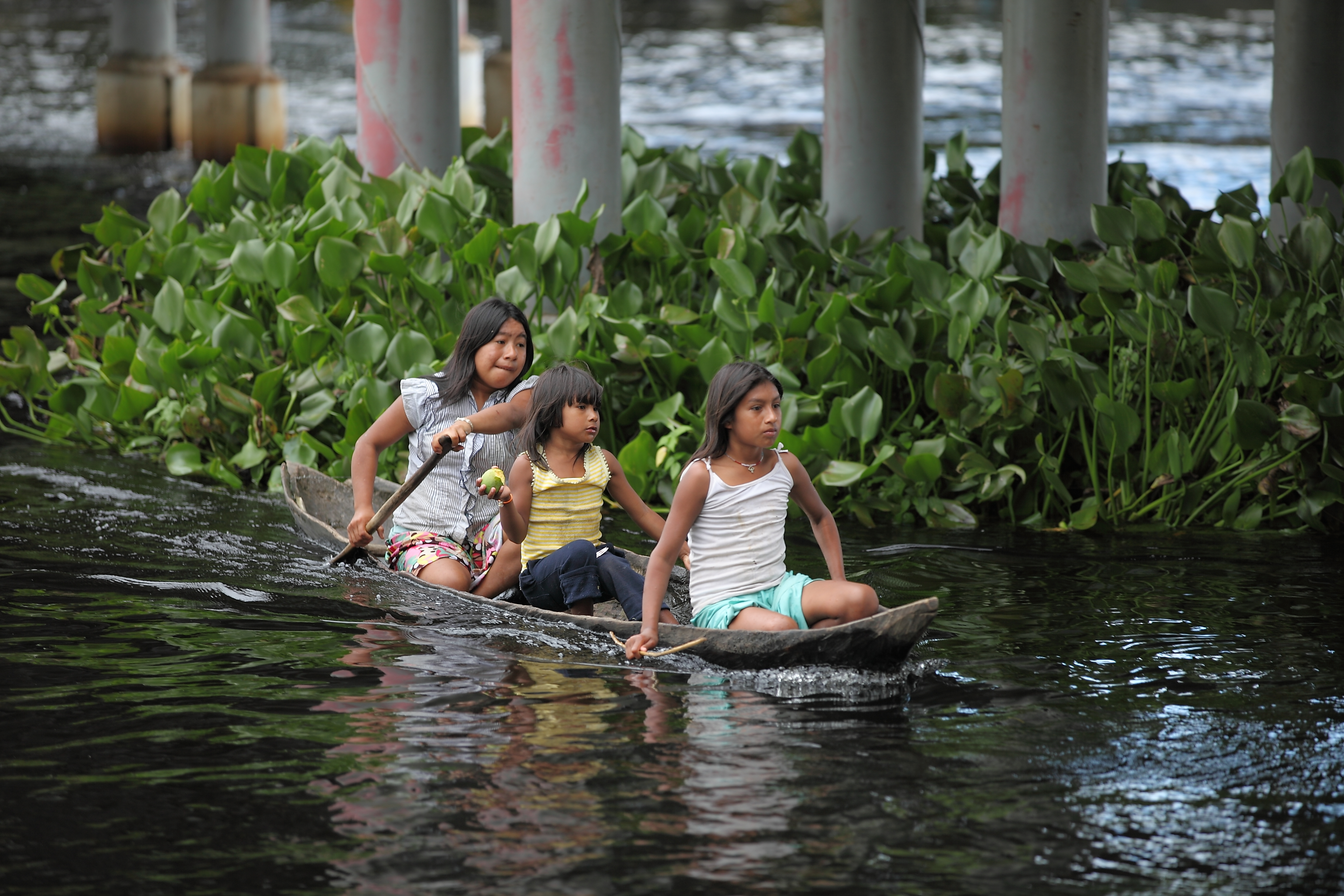 Indispensable means of transportation for Indigenous Community. Banks of the Morichal Largo river, Monagas.